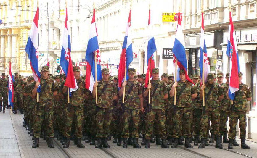 Echelon of members of Croatian Army during the Statehood Day